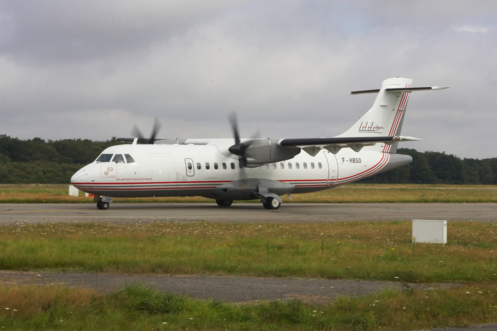 ATR 42-320 (F-HBSO) ATLANTIQUE AIR ASSISTANCE